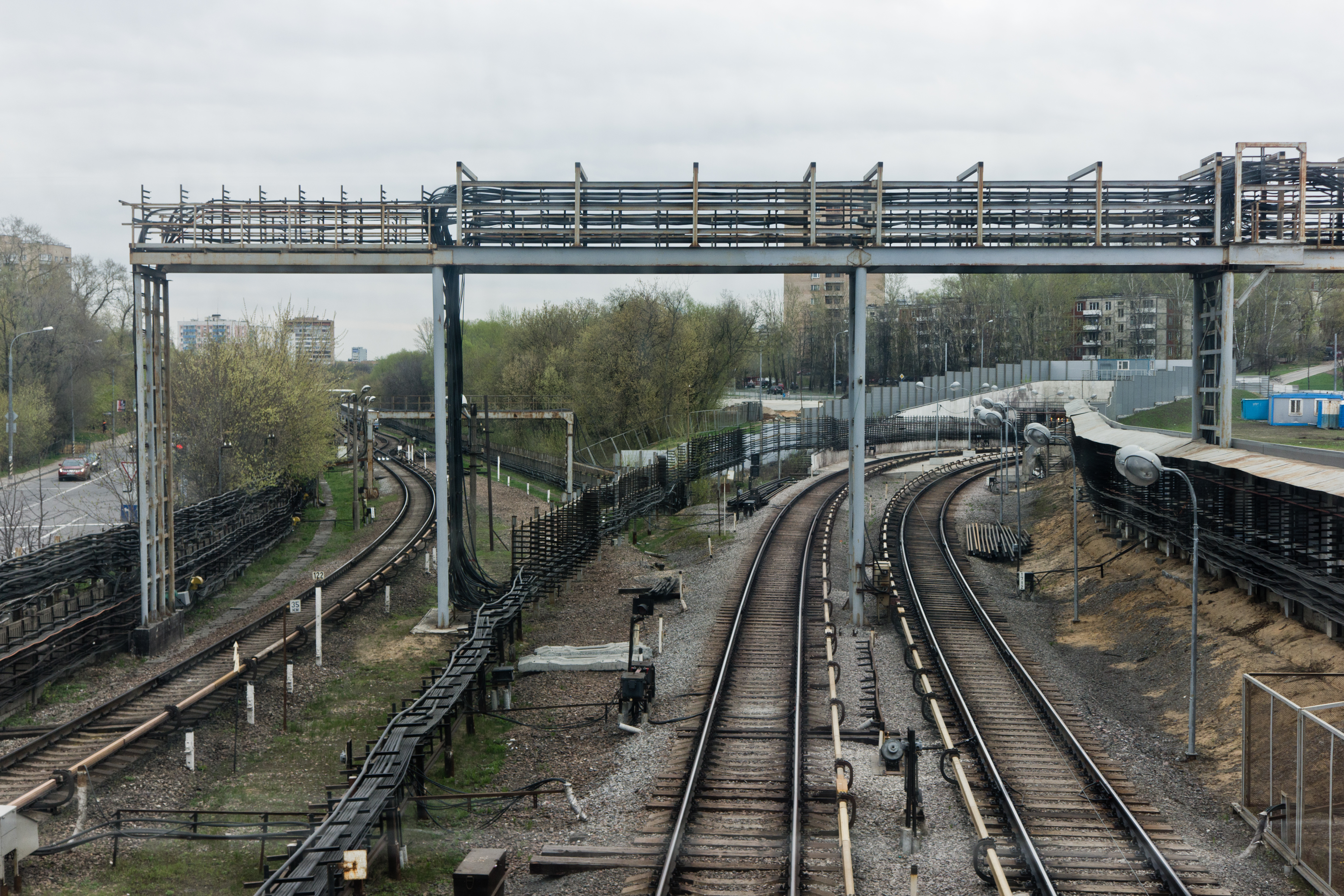 Kuntsevskaya Moscow Metro station.